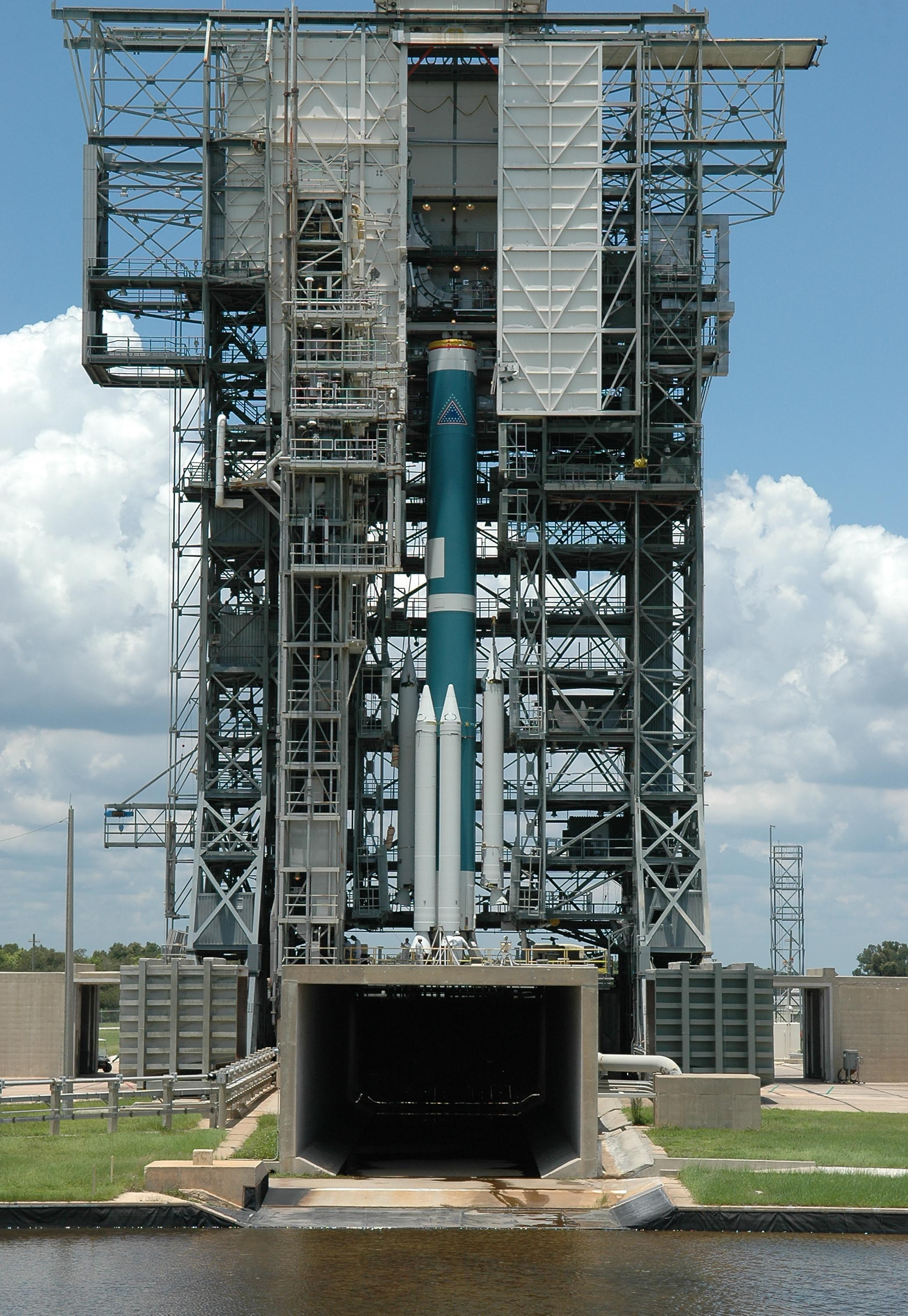 KENNEDY SPACE CENTER, FLA. – On Launch Pad 17-B at Cape Canaveral Air Force Station in Florida, the mobile service tower moves around the Boeing Delta II rocket for installation of the remaining solid rocket boosters. The Delta rocket is the launch vehicle for NASA's Solar Terrestrial Relations Observatory (STEREO). Preparations are under way for a liftoff no earlier than Aug. 1. STEREO consists of two spacecraft whose mission is the first to take measurements of the sun and solar wind in 3-D. This new view will improve our understanding of space weather and its impact on the Earth.